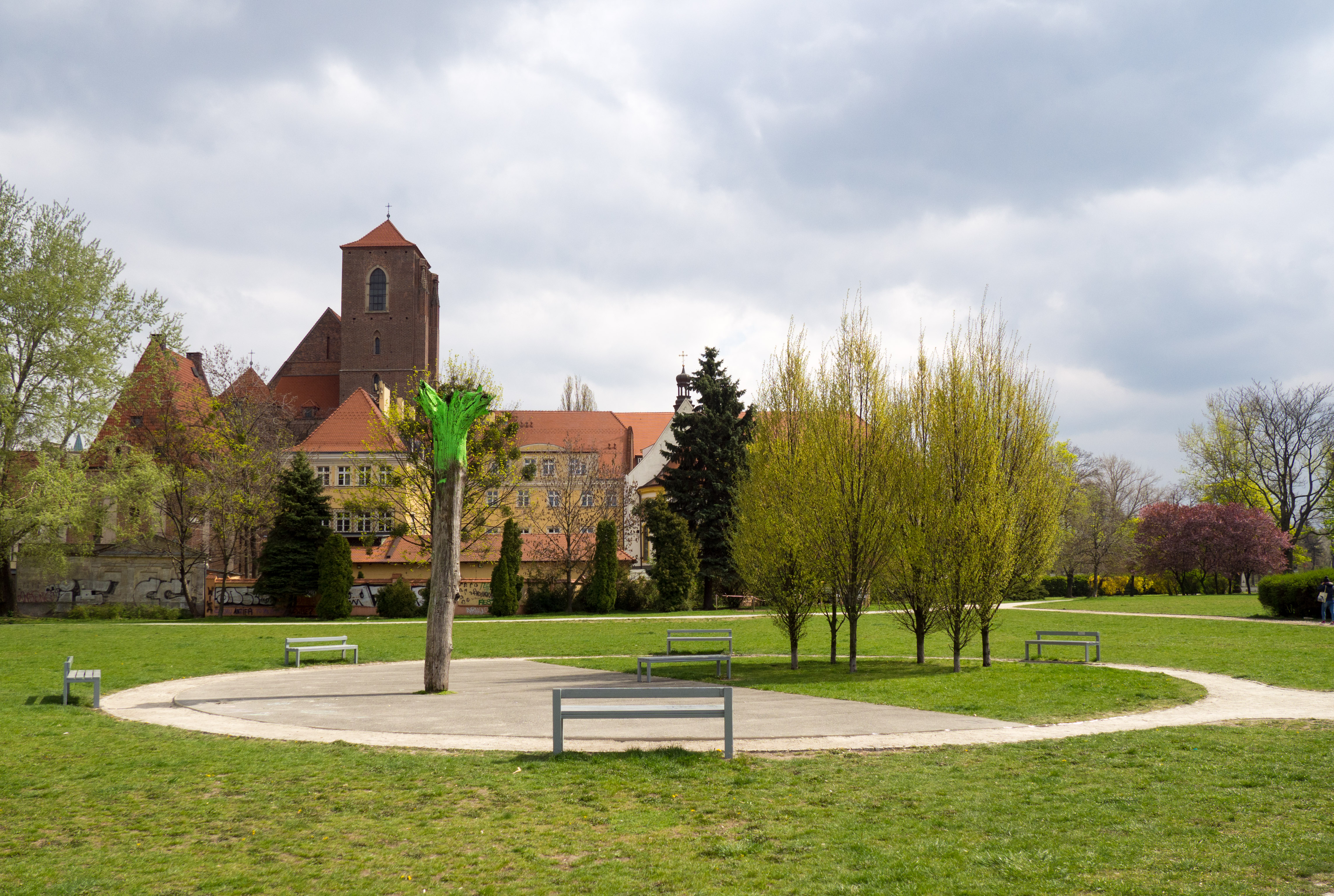 "Living Monument entitled ARENA" in Wrocław is an outdoor sculpture by Jerzy Bereś. It consists of two parts creating round shape - one is covered with concrete, with a dead tree trunk embedded upside down, the other one is covered with grass, with 6 young trees growing there. Each spring, the roots of the upside down trunk should be painted green, symbolising the new life, regeneration, new hope - referring, among others, the tragic and complicated history of Wrocław. In the photo, the sculpture is just after annual action of repainting the roots, which took place on 11 April 2019. The event was organised by the Entropia Gallery and the Jerzy Bereś and Maria Pinińska-Bereś Foundation.